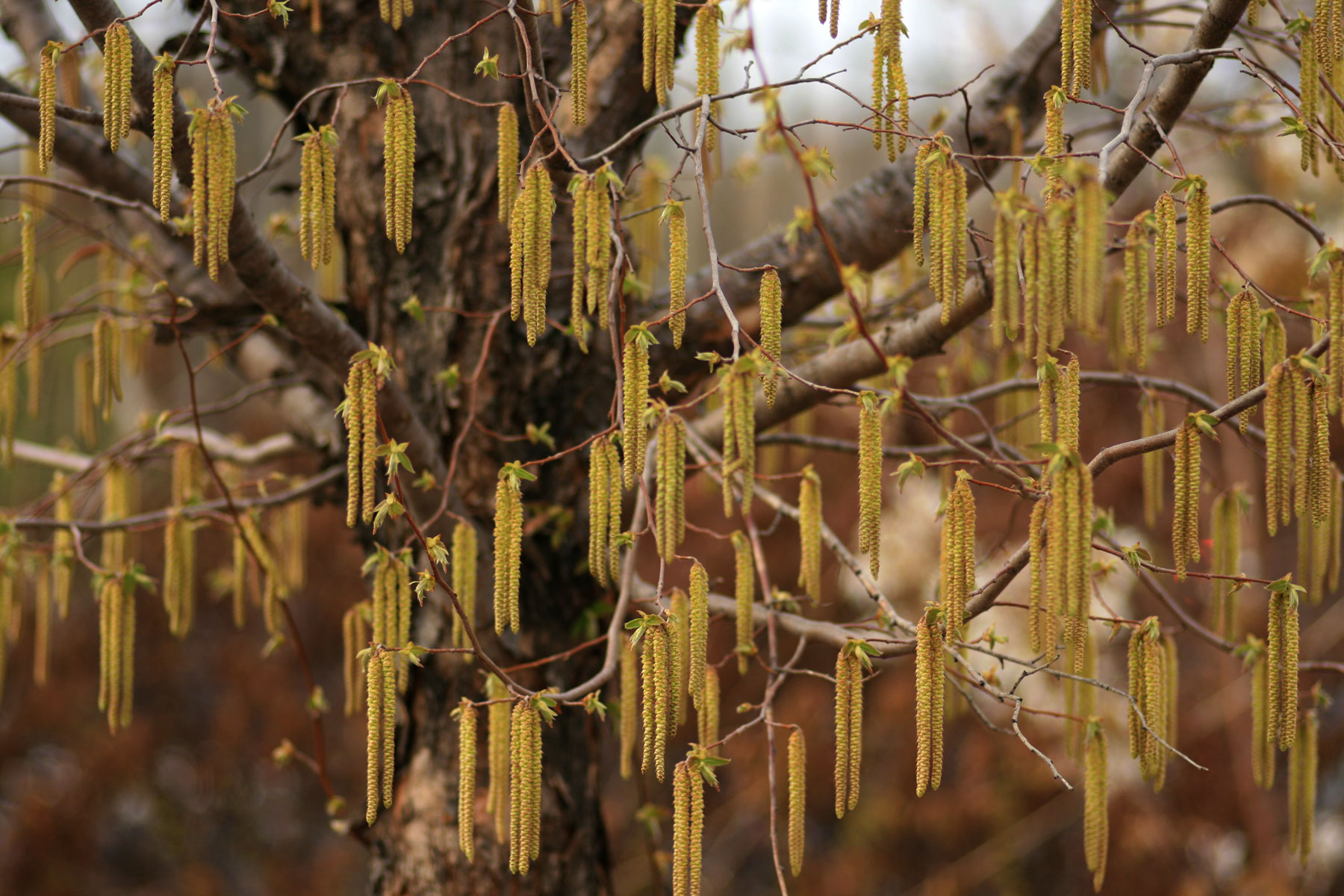 Ostrya virginiana. Cultivated. National Botanic Garden, Washington, DC, USA. 3 April 2011.